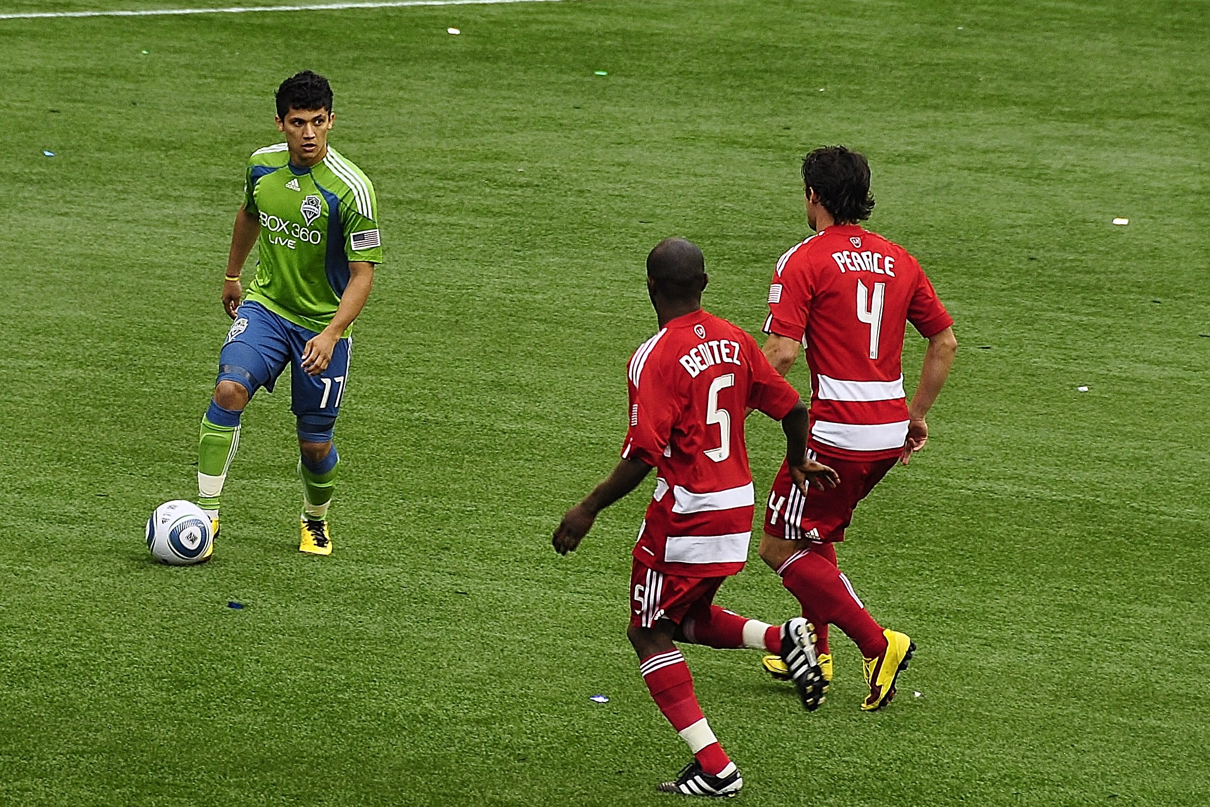 Seattle Sounders vs FC Dallas, July 2010.